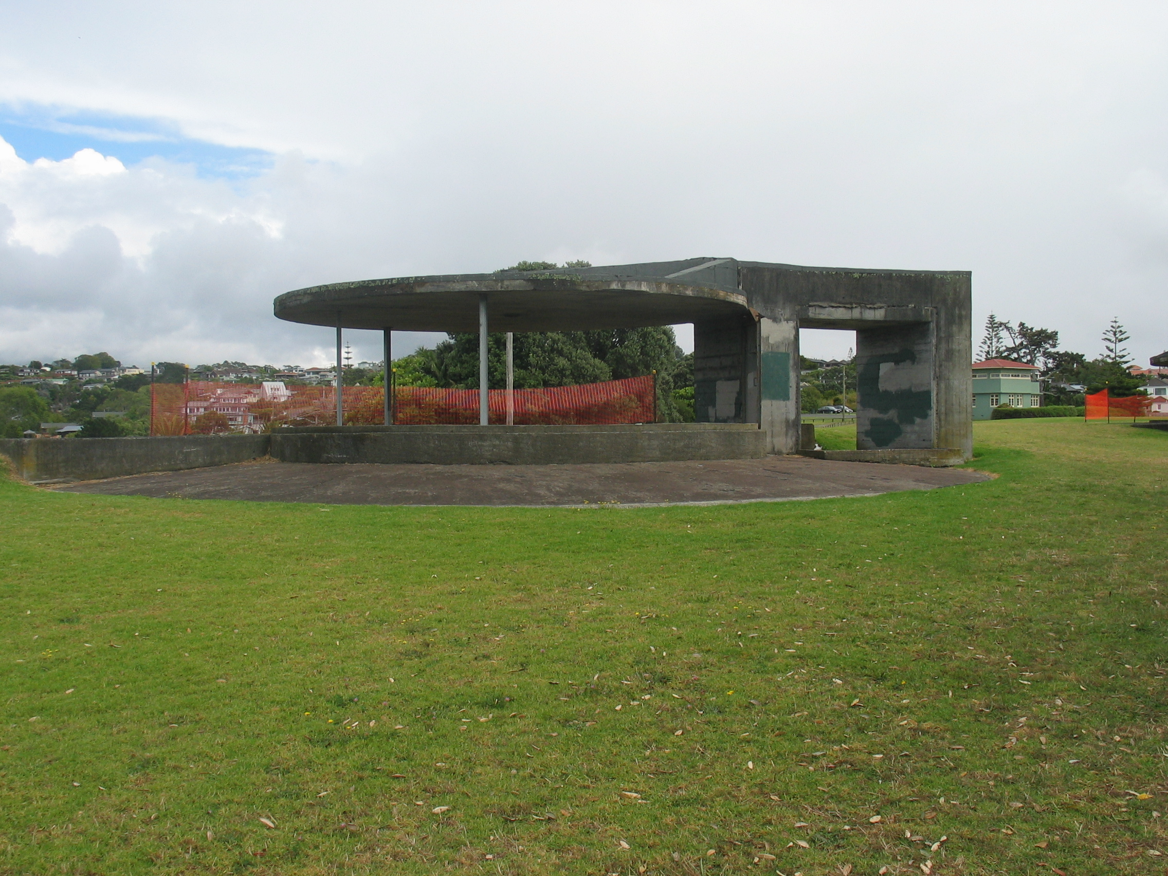 A World War II bunker at J F Kennedy Memorial Park in Castor Bay, North Shore City, New Zealand